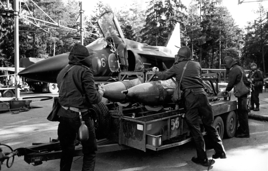 An AJ 37 Viggen of The Swedish Air Force being served by groundcrew at a wartime air base